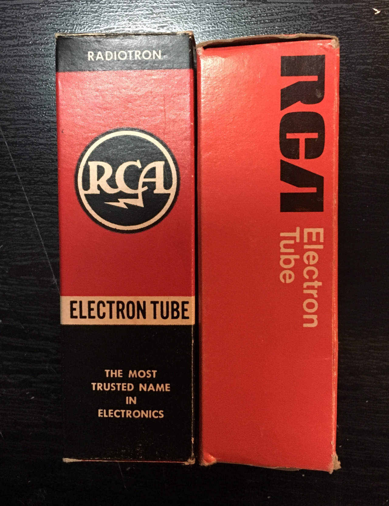 Two RCA bran vacuum tube cartons, displaying the first and second versions of the RCA logo